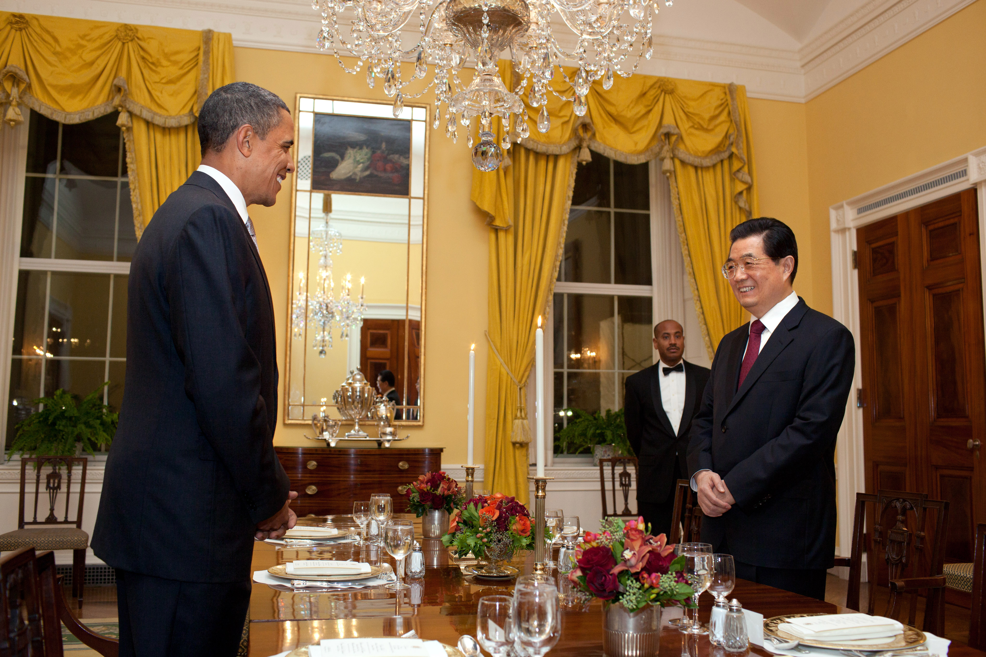 U.S. President Barack Obama and President Hu Jintao of China begin their working dinner in the Old Family Dining Room of the White House. This official White House photograph is in the public domain from a copyright perspective, so while restrictions such as personality or privacy rights may apply, in general, manipulations are allowed.